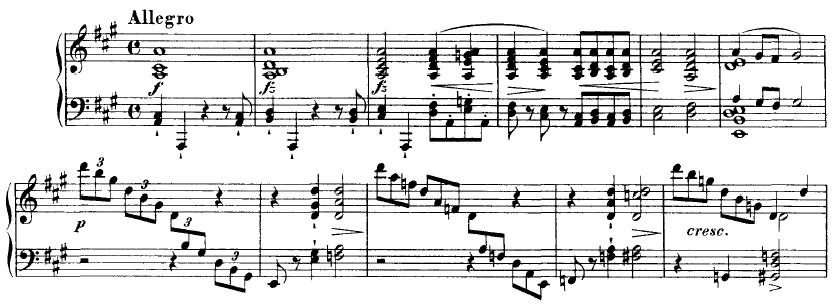 Opening of the sonata in score.